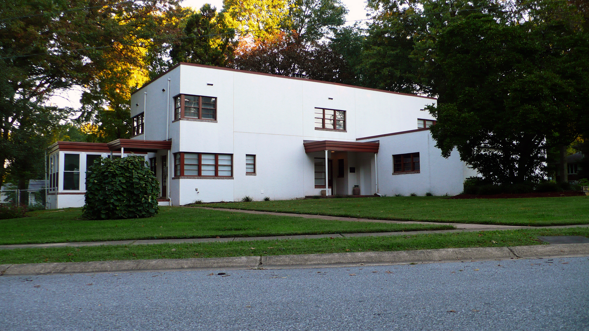 Stuart Randall & Pricilla Kellogg Carswell House